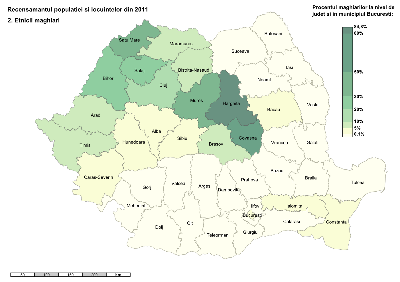 Distribution of ethnic Hungarians in Romania according to the 2011 census. Software used: OpenJUMP GIS ( and Inkscape (